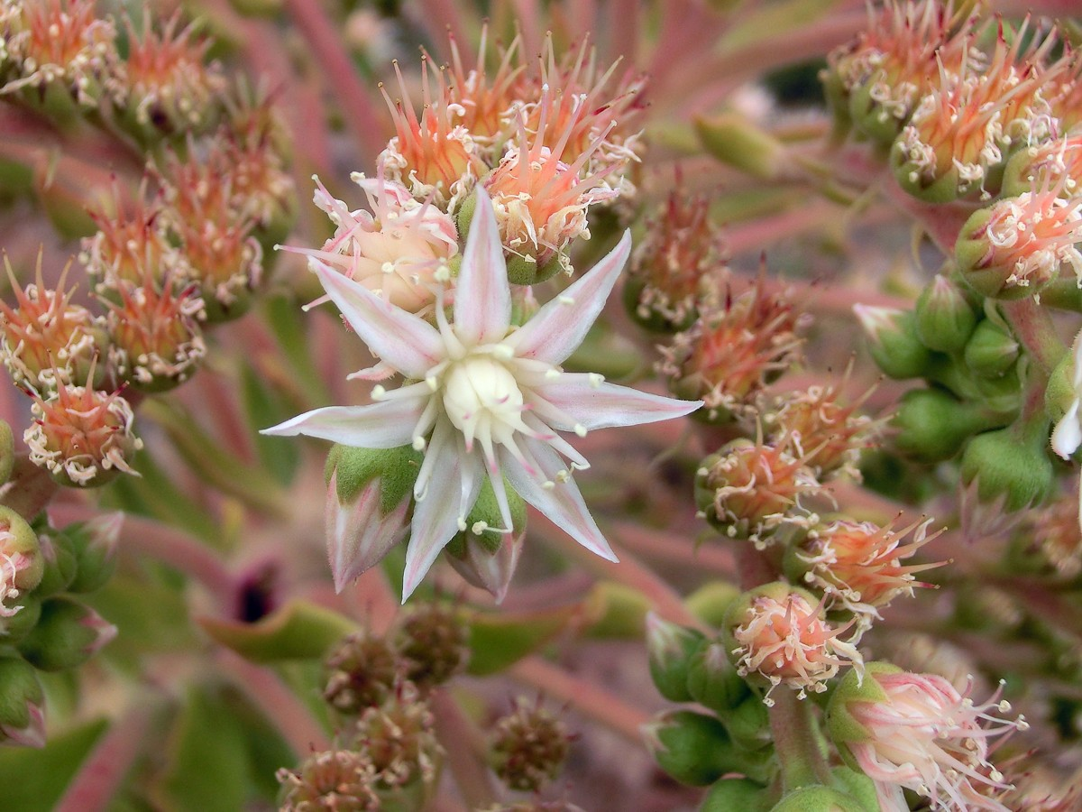 Aeonium urbicum var. meridionale, flower. W Tenerife, Teno mountains, SW of Santiago del Teide above El Molledo, open shrubland, ca. 800 m.